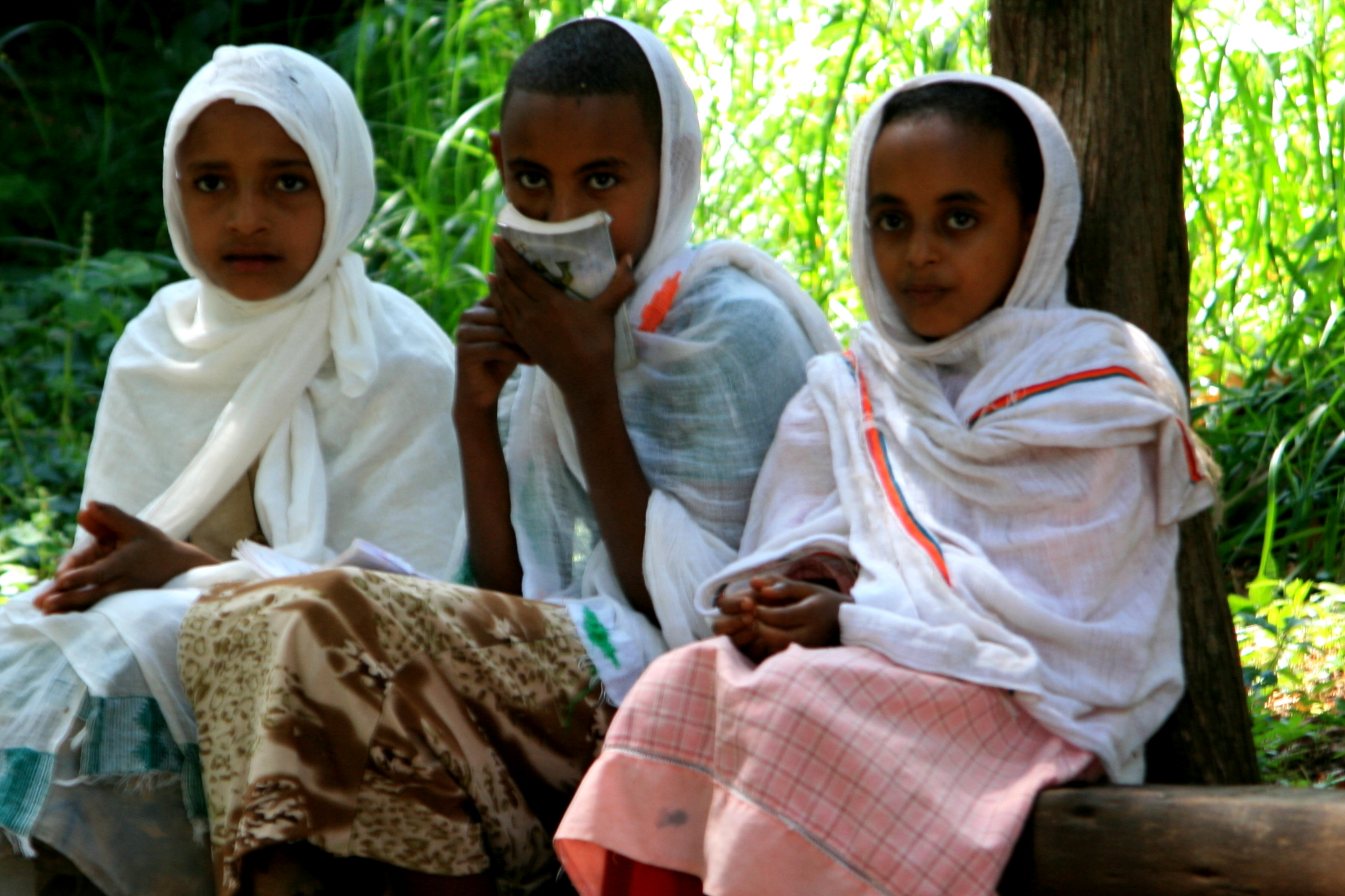 Three girls in colorful dresses wrapped in netela in the Amhara Region of Ethiopia.